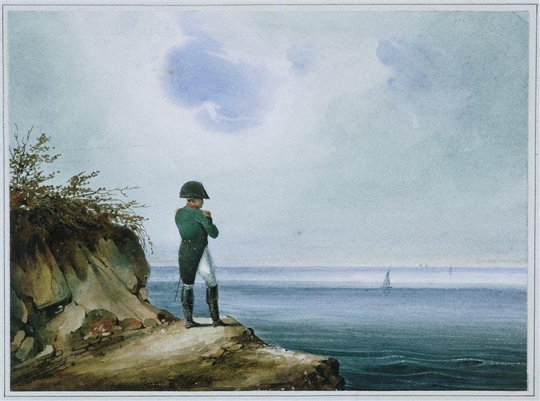 Napoléon in Sainte-Hélène, by Franz Josef Sandmann.